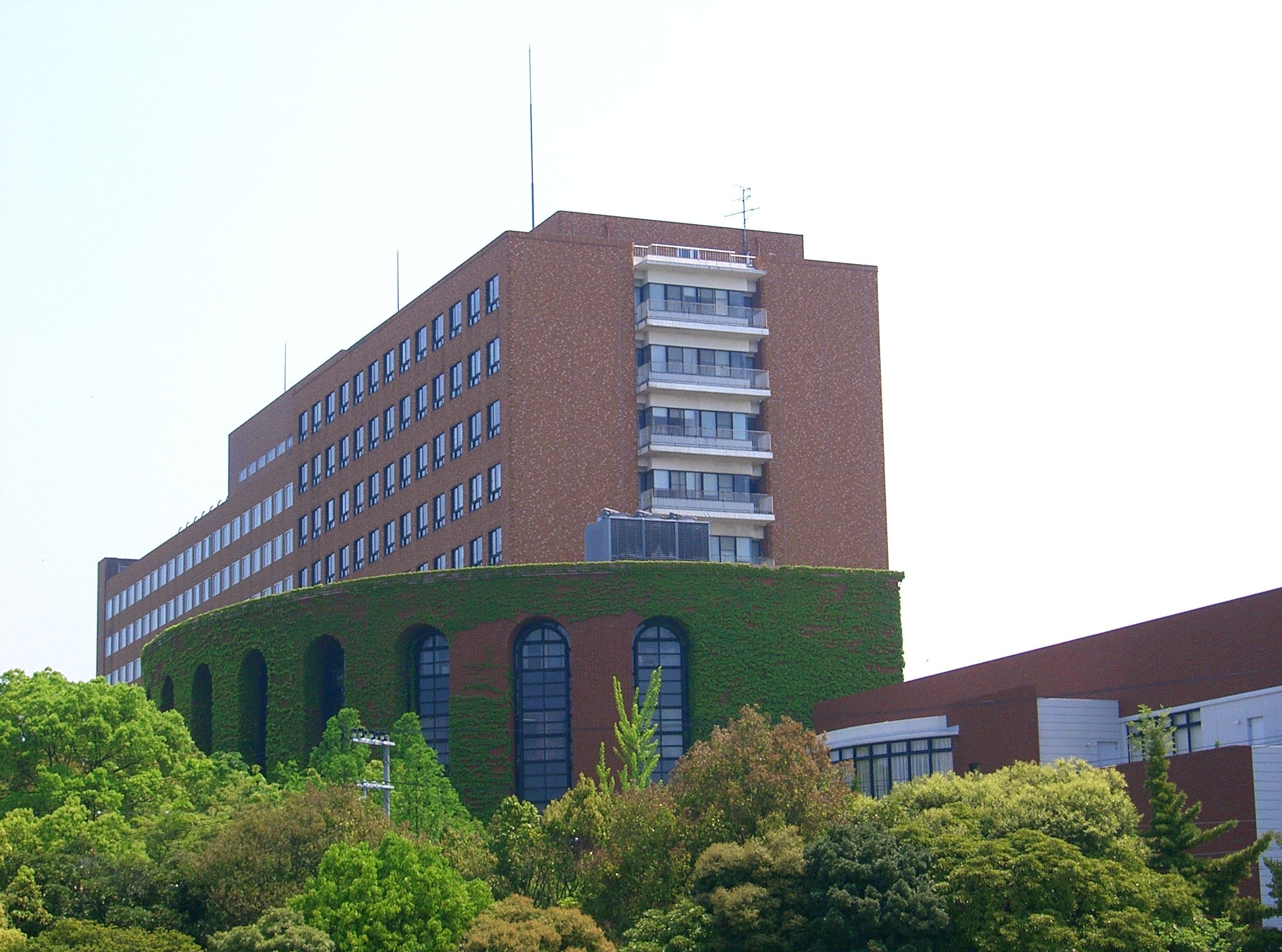 Kinki University Hospital